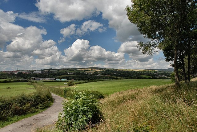 View towards Ashworth Moor View towards Ashworth Moor